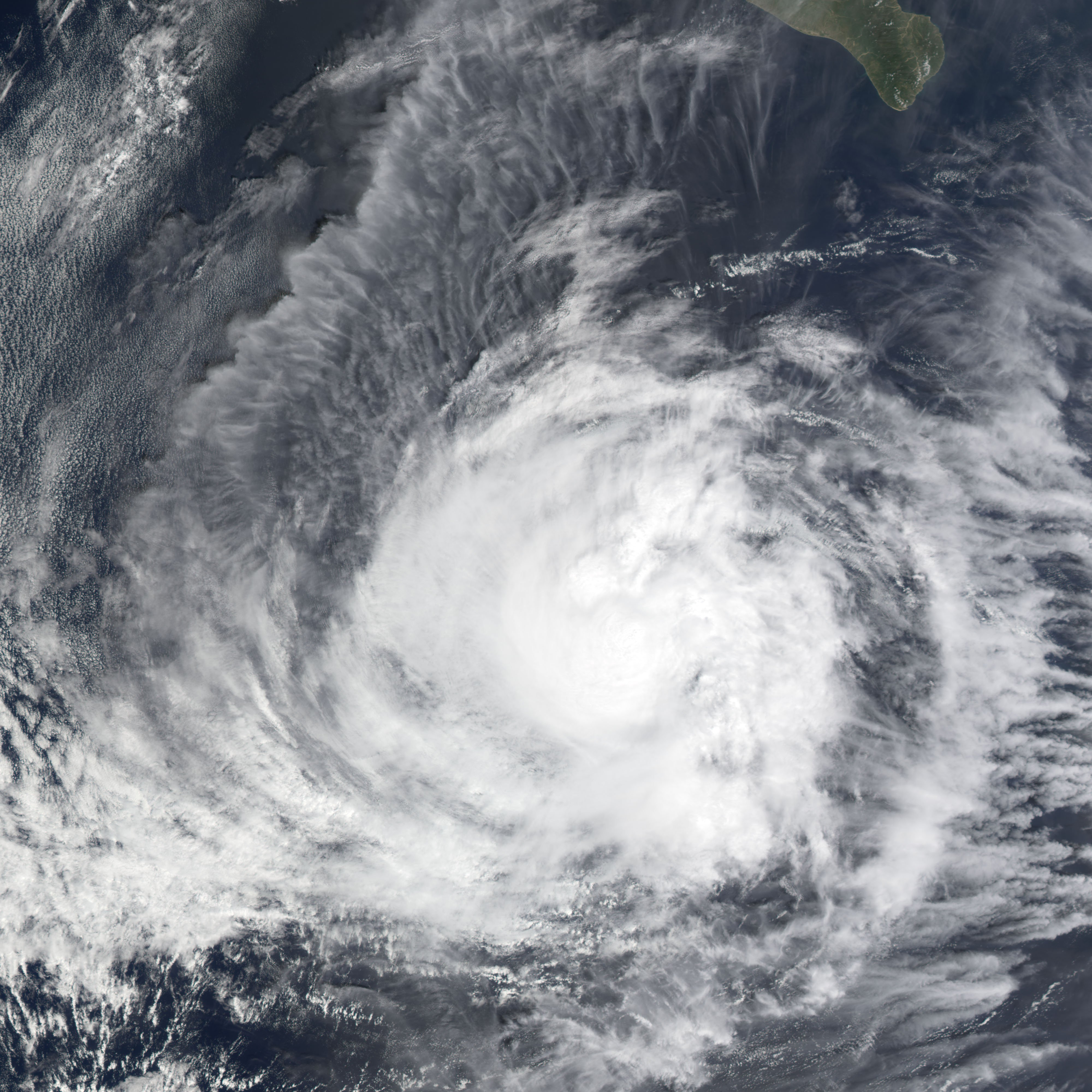 The MODIS instrument onboard NASA's Terra satellite captured this true-color image of Hurricanes Nora (center) and Olaf (left) on October 5, 2003. At the time this image was taken Nora had maximum sustained winds near 85 mph, while Olaf was just tipping the hurricane scale with sustained winds of 75 mph.